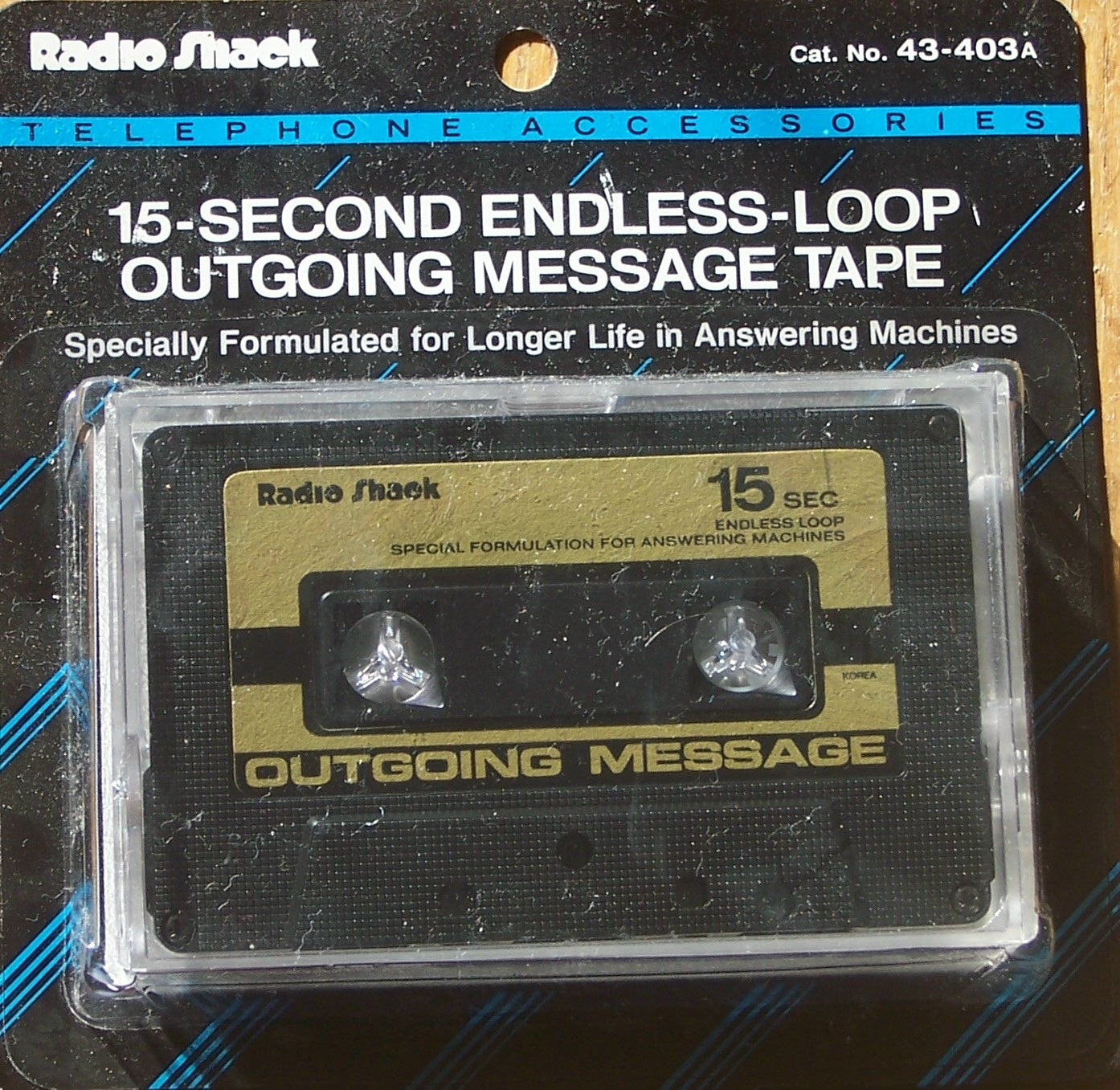 An endless loop outgoing message tape, as used by cassette-based answering machines of the late 1980s/early 1990s vintage.